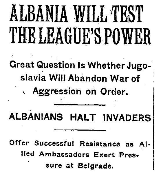 This is an article published in the New York Times on November 9, 1921. It is about Yugoslav occupation of Albania.